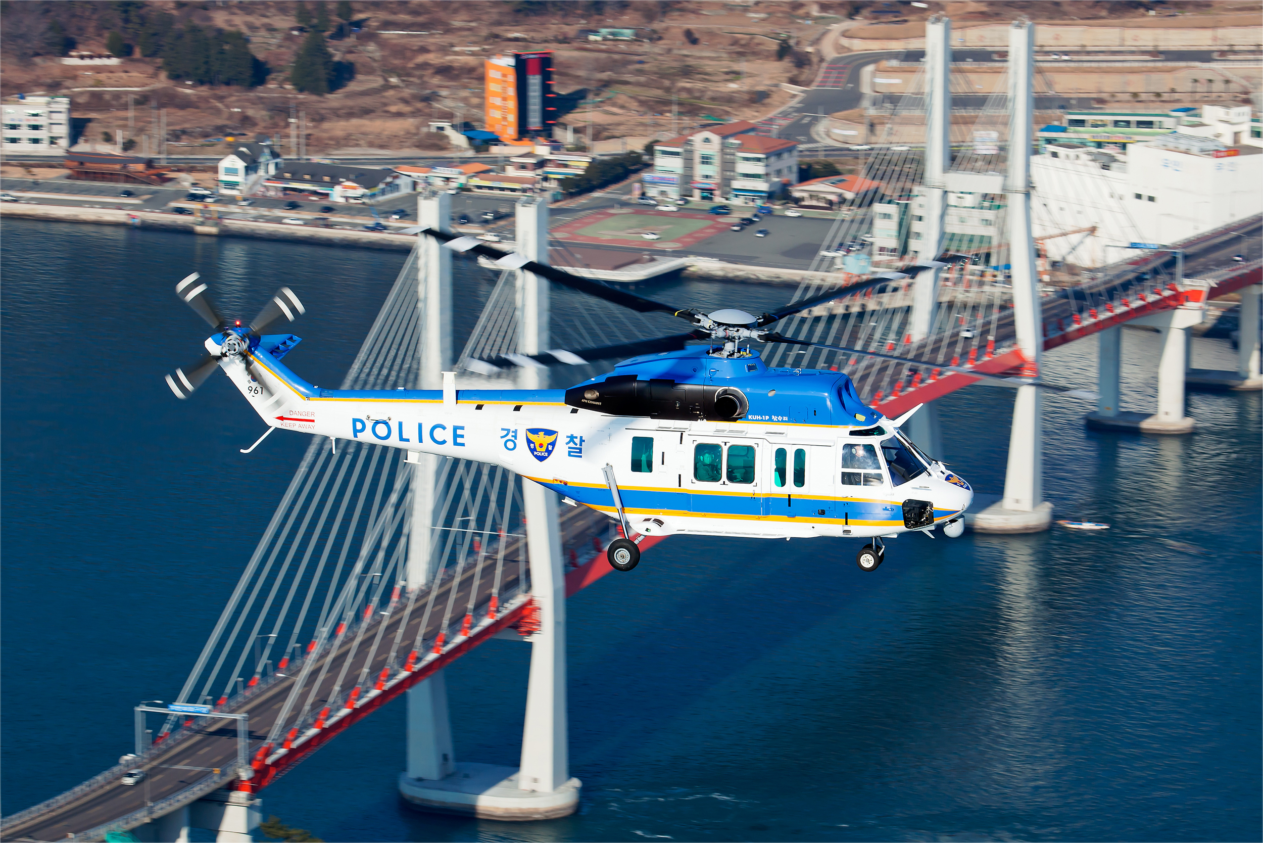 Korean Police version (KUH-1P/ Cham Suri) / Demo Flight / Photo by JangSu Lee (2013) 한국항공우주산업